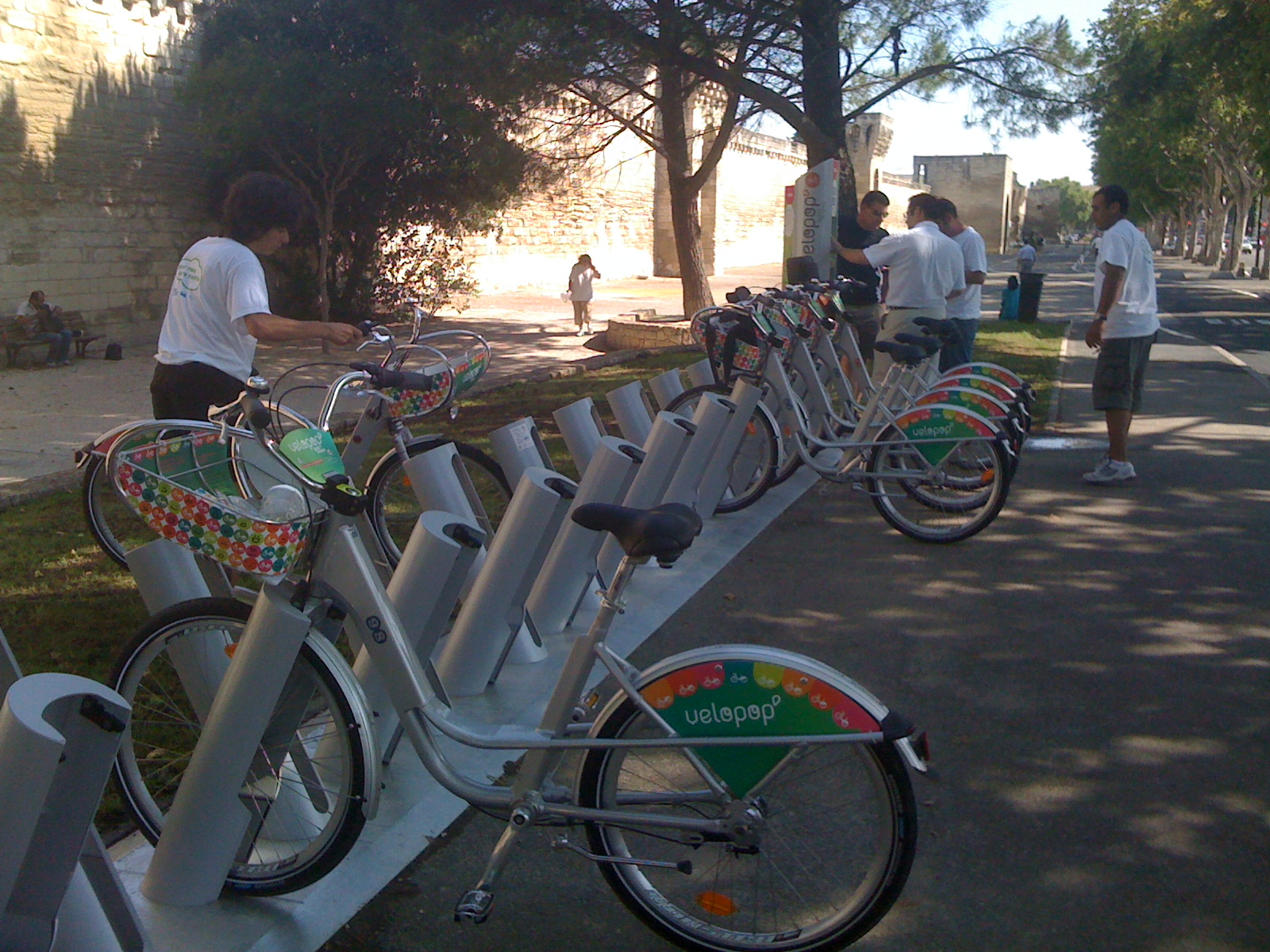 A Vélopop' station outside Avignon medieval city walls